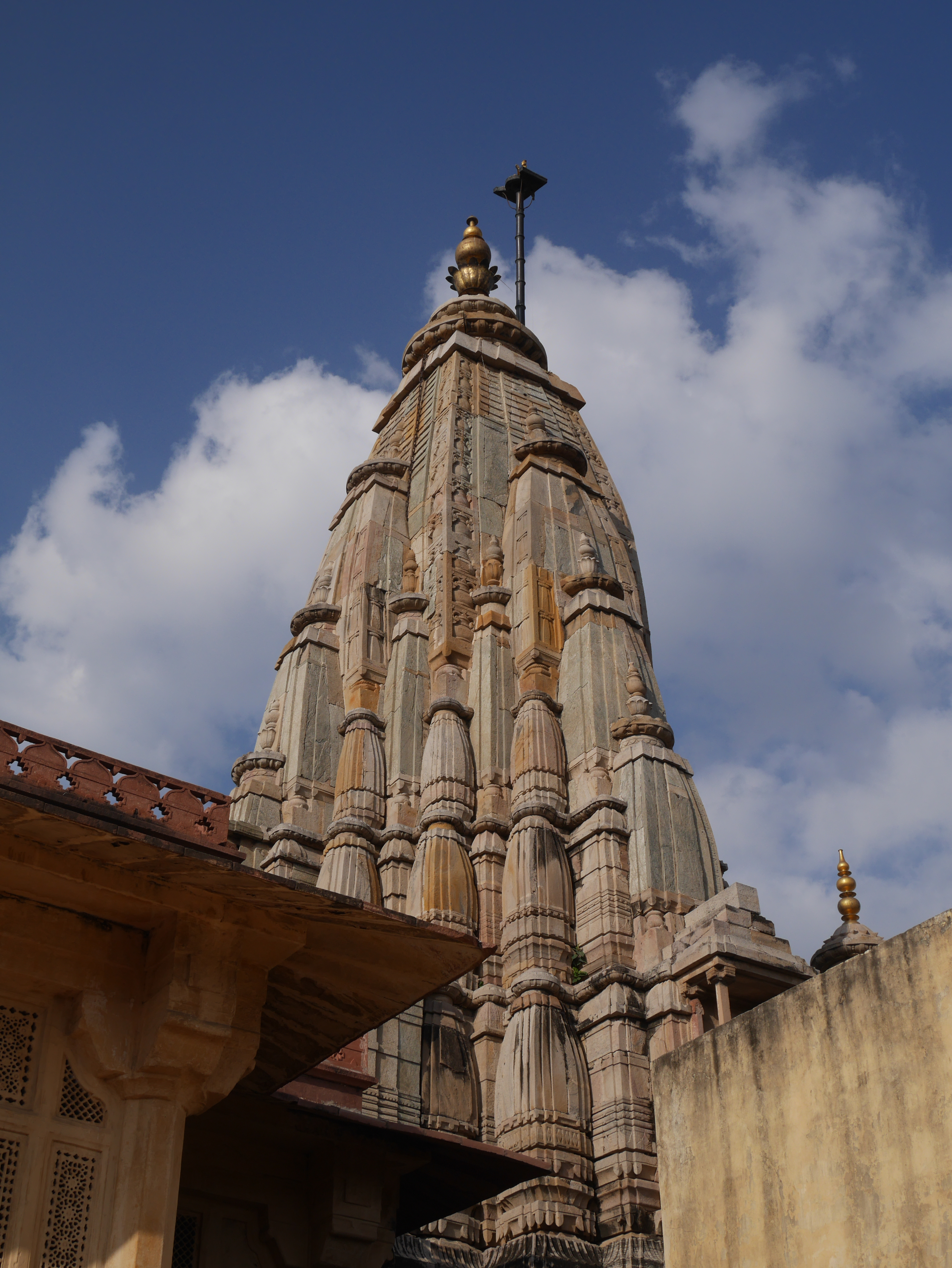 Main shikhara of Kalki Temple, Jaipur (built 1740).